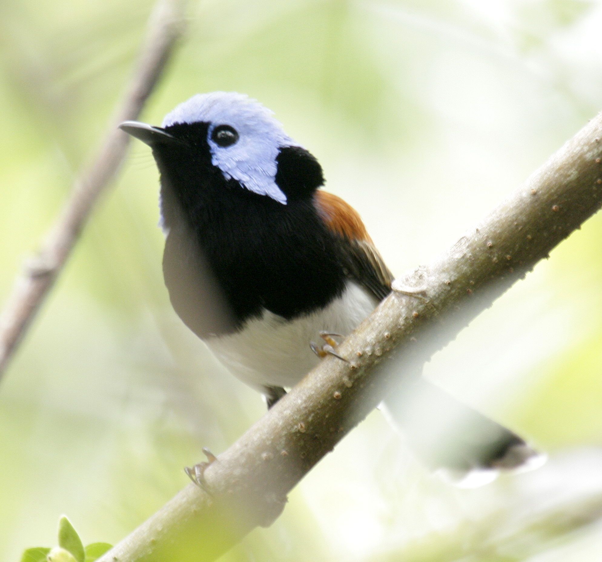 Lovely Fairy-wren (Malurus amabilis) Portland Roads, Cape York, North Queensland, Australia